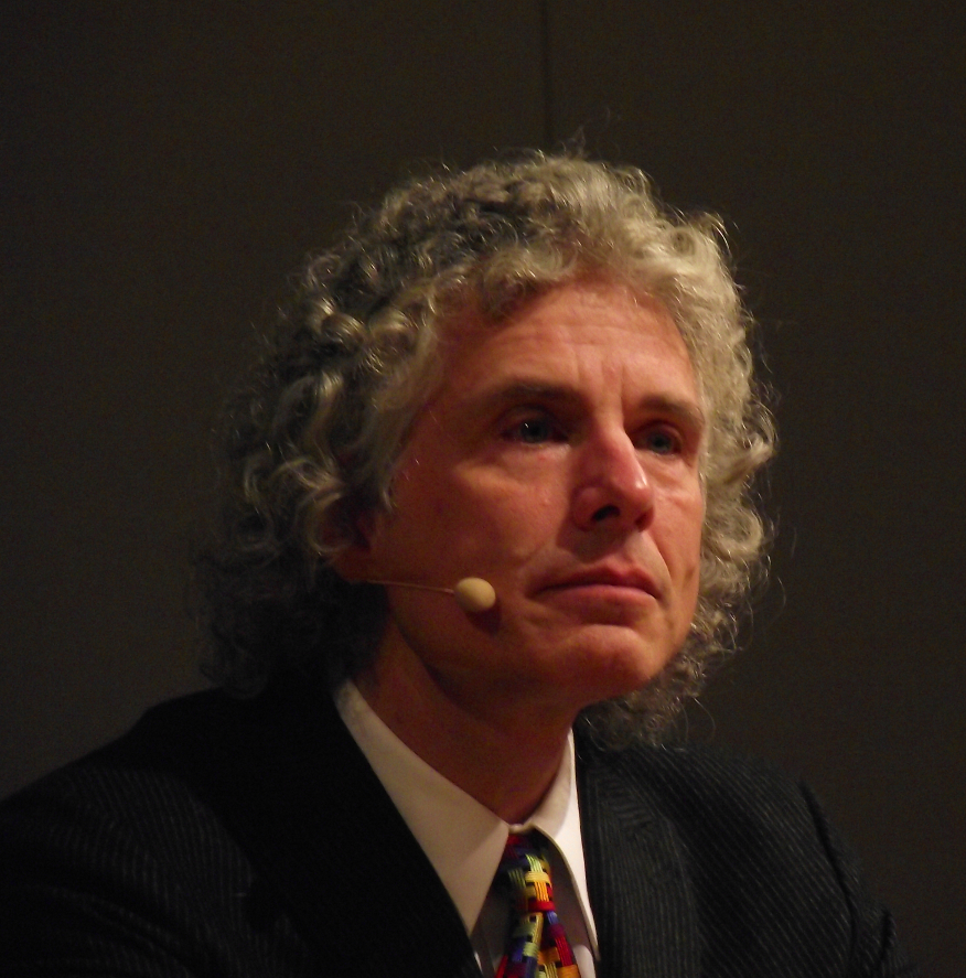 Steven Pinker at the Göttinger Literaturherbst, 10/10/2010 Göttingen, Germany.